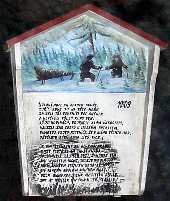 Monument Bílá smrt in Jizera Mountains